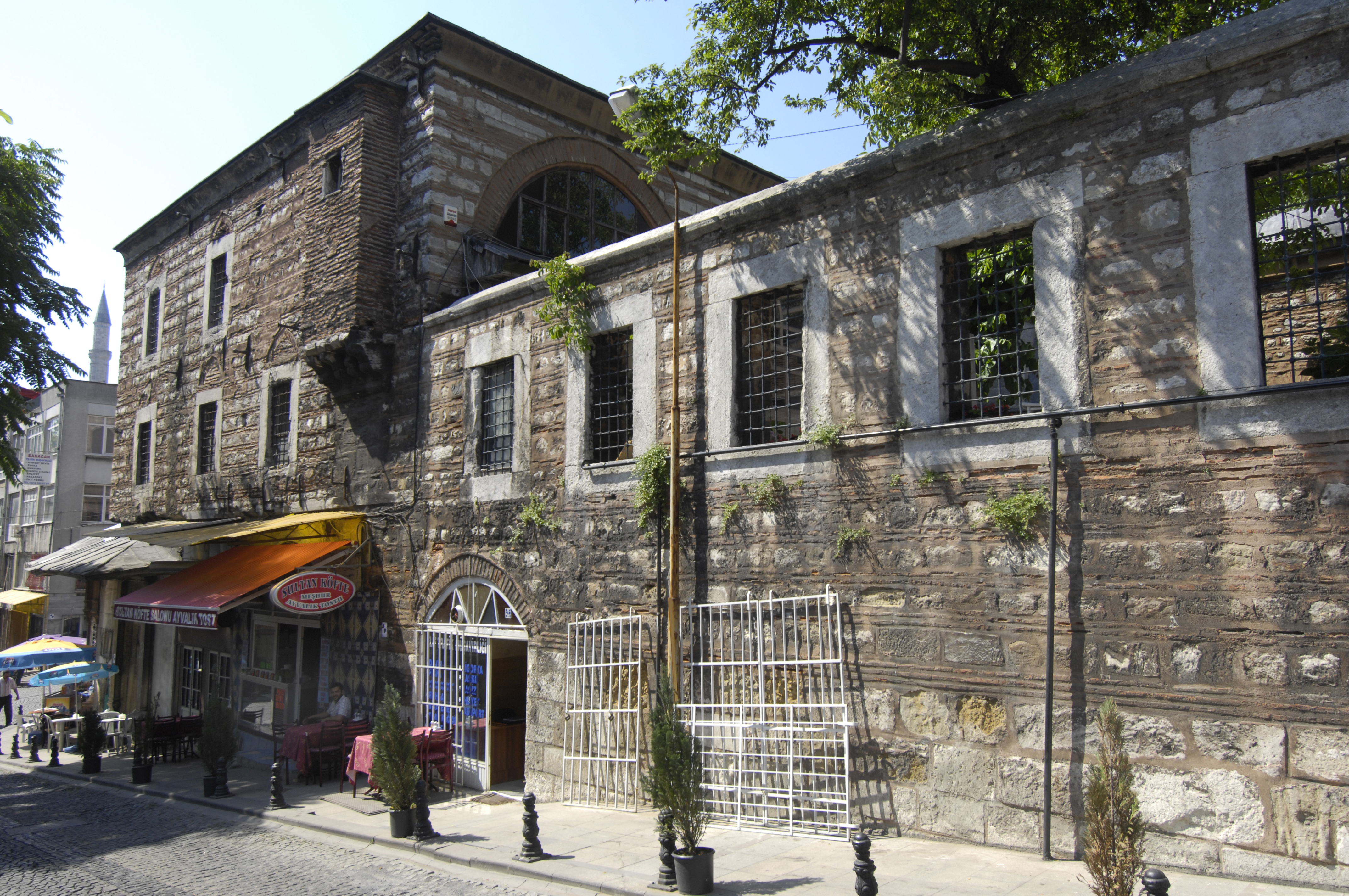 Hacı Beşir Ağa mosque. He was a paşa that was born in Africa and grew up here, reaching a high position as Chief of the Black Eunuchs under Sultan Mahmut I. It was being restored in 2007. Built in 1745 the complex has a mosque, a medrese and a dervish monastery as well as a drinking fountain, where drinks might be handed out too (sebil).